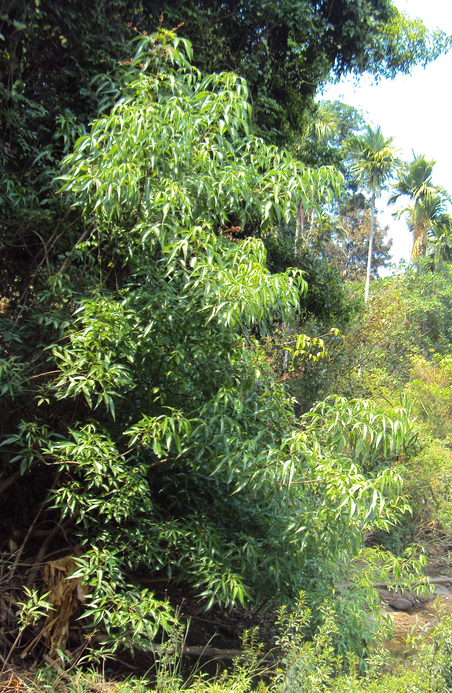 Crataeva magna tree - നീര്‍മാതളം